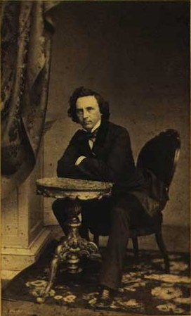 Michael Rosing Wiehe (1820-1864), Danish actors